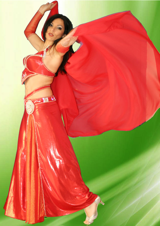 Hayet belly dancer